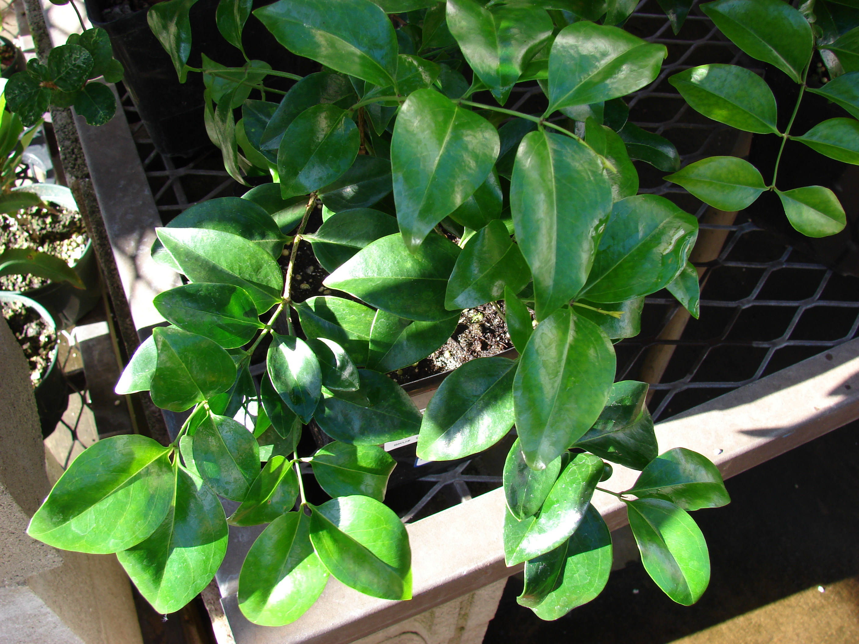 Jasminum simplicifolium (habit). Location: Maui, Lowes Garden Center Kahului